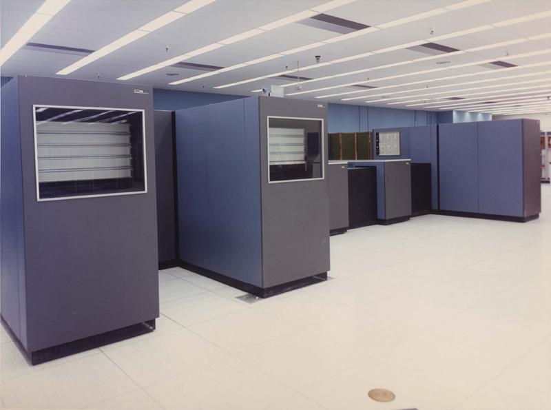 IBM 1360 Photo-Digital Storage System at LLNL. Courtesy of the University of California, Lawrence Livermore National Laboratory Archives and Research Center (Computation Photographs, 1950s-1990s, Box 7), GLB-755-319 (photostore).